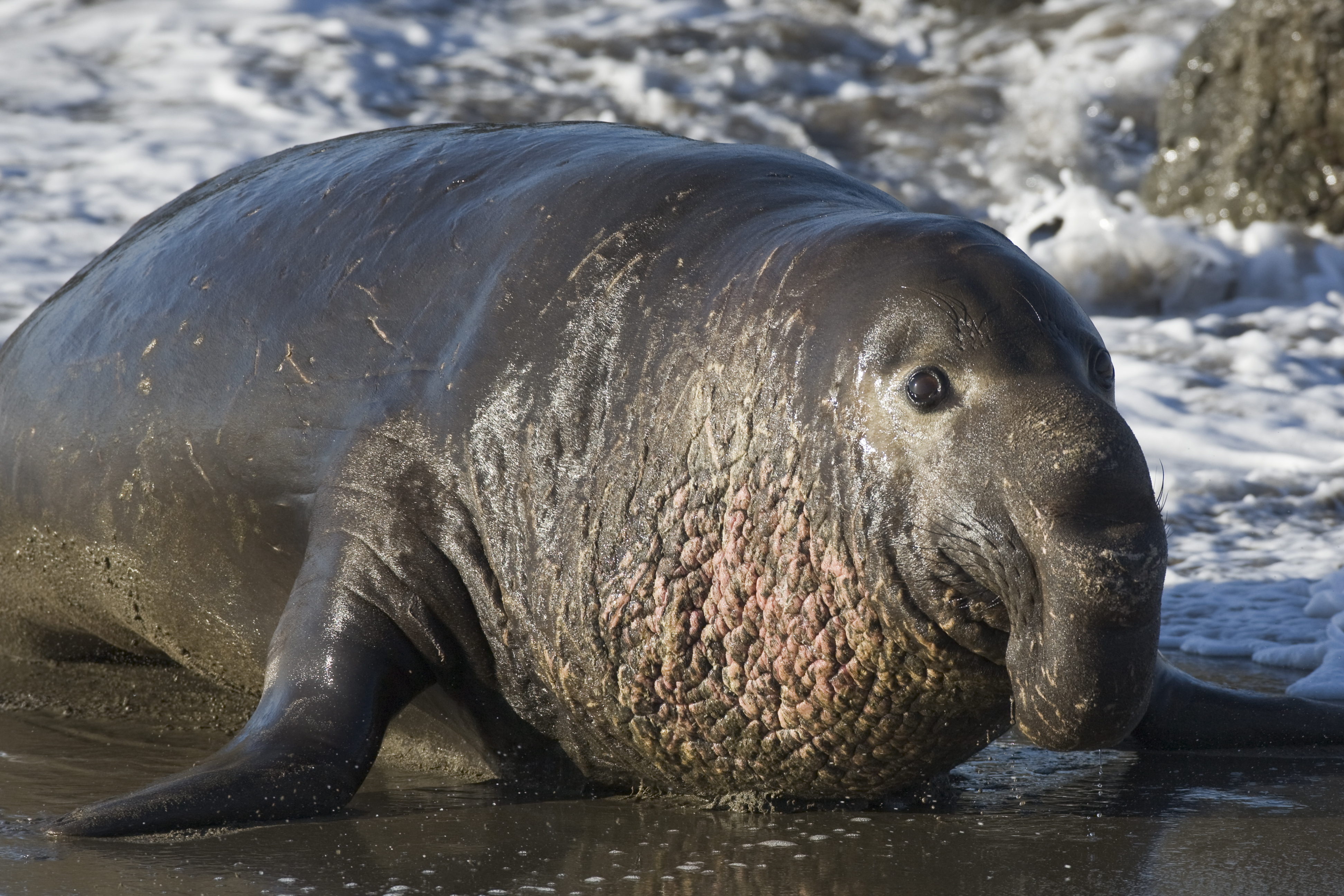 Northern Elephant Seal, Piedras Blancas, San Simeon, CA 02feb2008 - photo by Michael "Mike" L. Baird Canon 1D Mark III w/ 600mm f/4 IS lens on tripod More Creative Commons use at